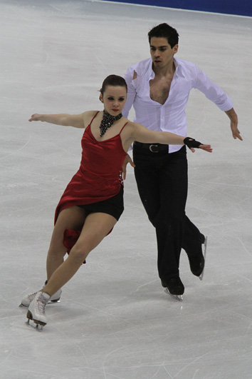 Anna Cappellini and Luca LaNotte at the the 2010 World Championships.